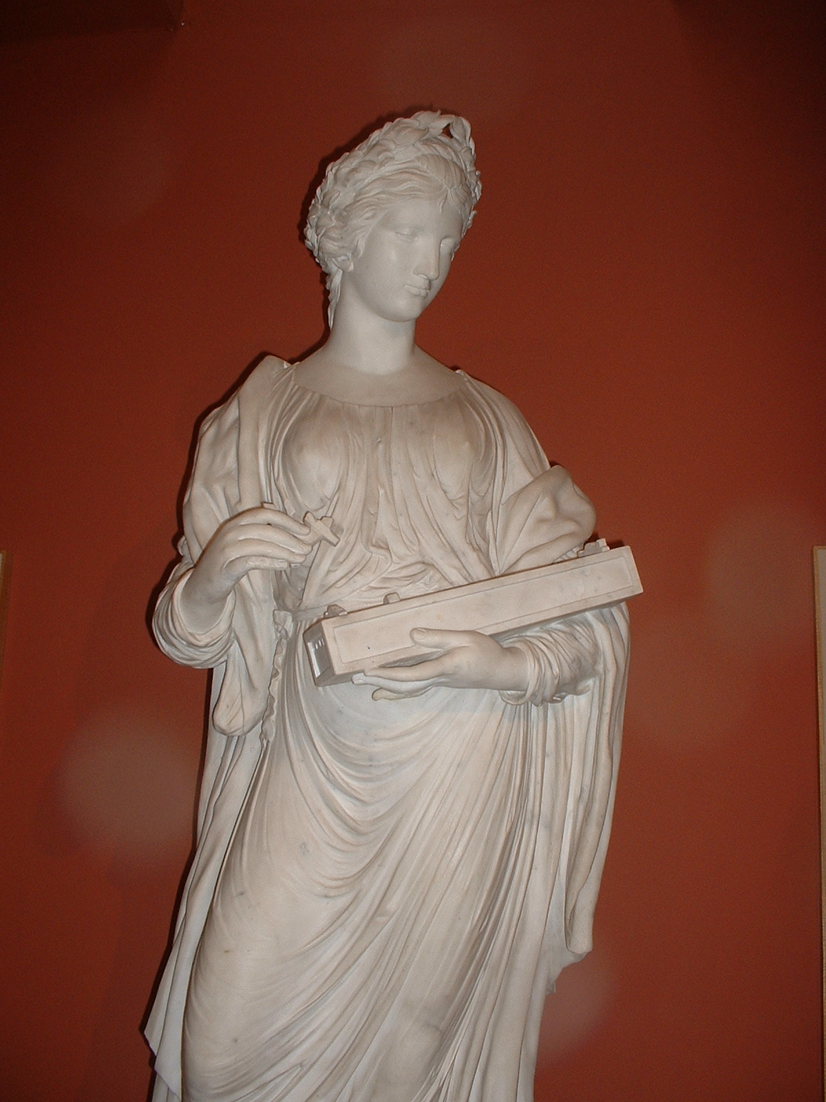 'The whirler of the dance' Hesiod (Greek poet). Terpsichore was one of the Muses, her name means 'she who delights in dancing', she presided over dance and lyric poetry. In this statue, she is portrayed holding an Aeolian harp and what might be a pair of dividers or a plectrum. The statue was sculpted in marble by John Walsh in 1771. It was commissioned by Sir Charles Kerneys Tynte, fith baronet of Halswell House for his 'Temple of Harmony'. Photograph was taken in the Somerset County Museum in Taunton on 29-Oct-05.